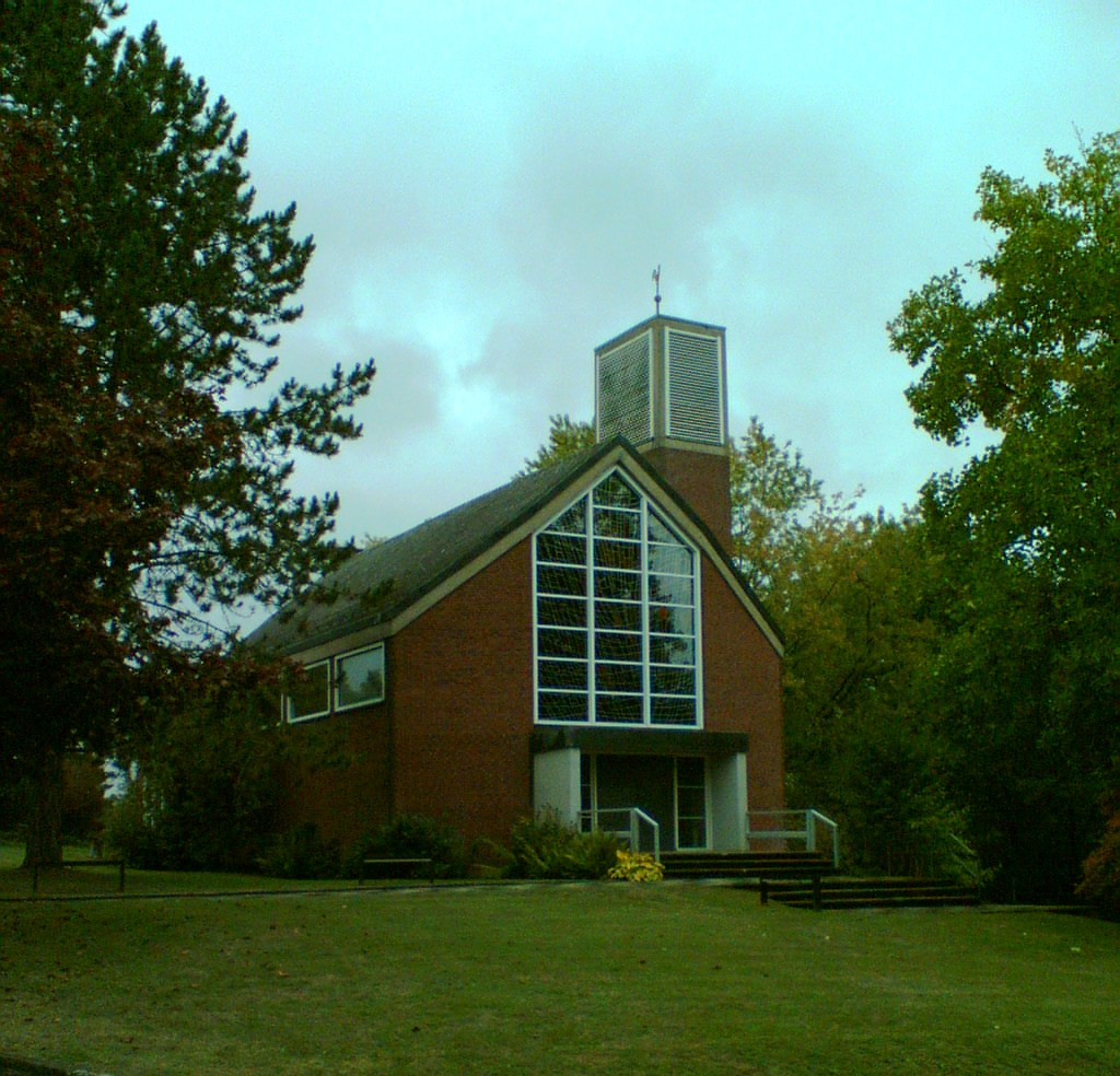 church in Lenne (Lower Saxony)